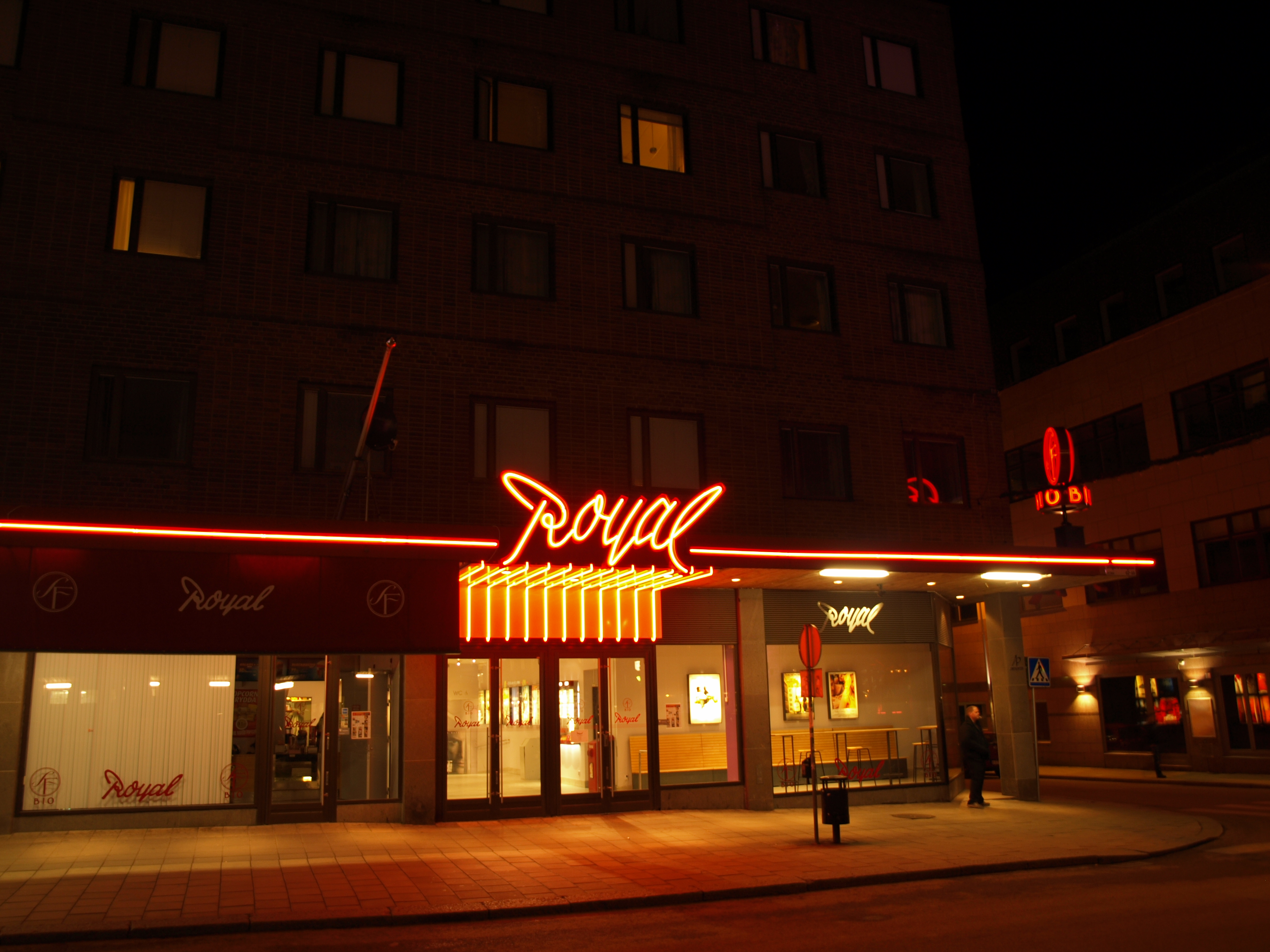 The cinema Royal in Uppsala, Sweden.